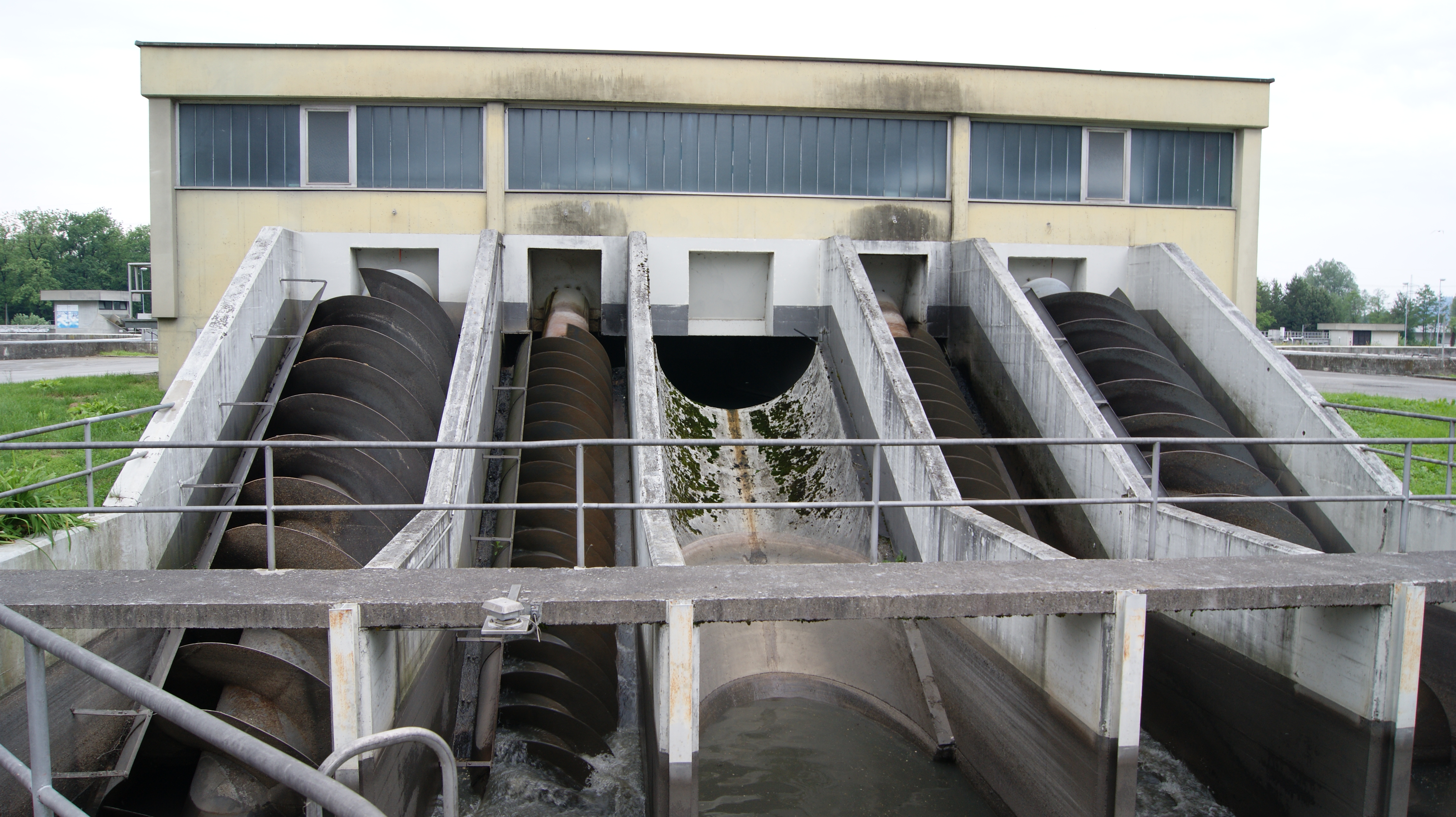 Sewage treatment plant Dornbirn-Schwarzach in Vorarlberg, Austria. Archimedean screw pump station.